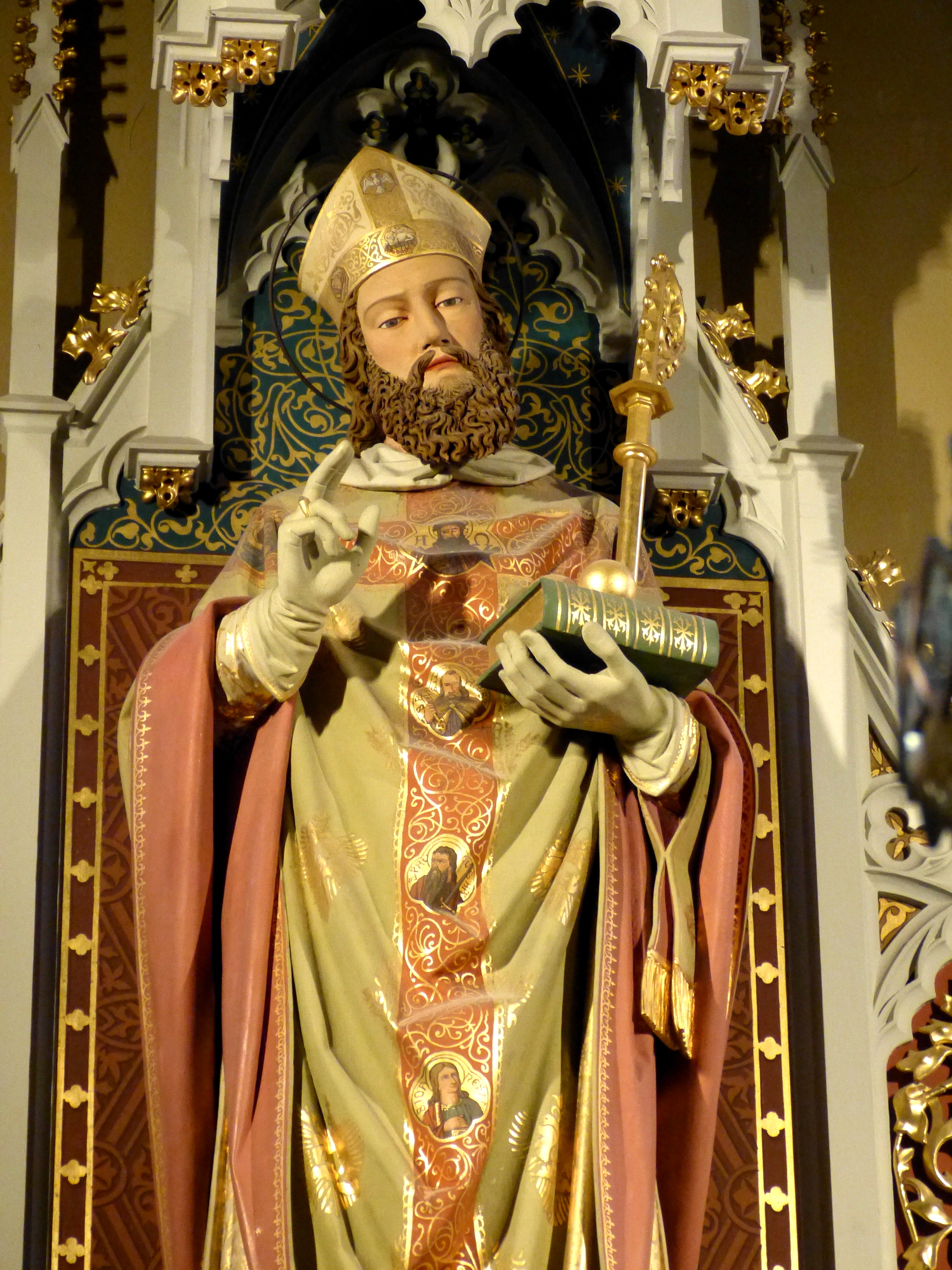 Ambras castle ( Tyrol ). saint Nicholas castle chapel: Gothic revival altar statue of Saint Nicholas by Michael Stolz ( 19th century )